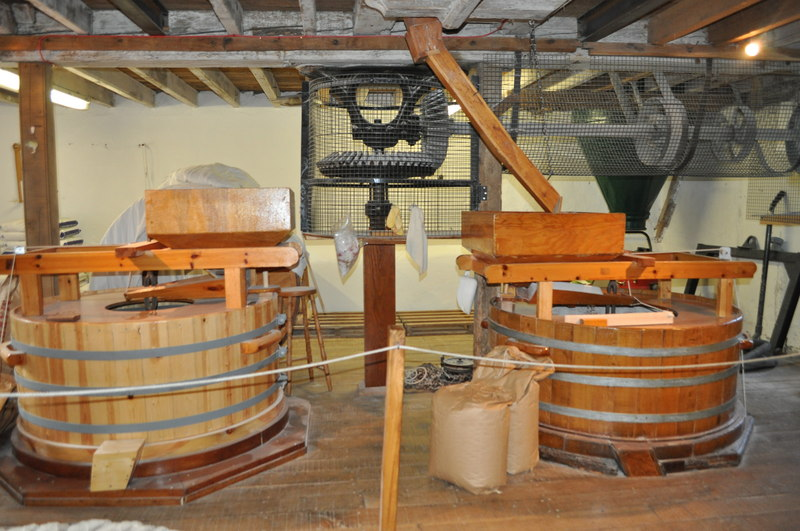 Milling Stones at letheringsett Watermill, near to Letheringsett, Norfolk, Great Britain. The two stones in the mill, the waterwheel could only power two. At the moment the stone on the right works. The waterwheel and cogs are downstairs.